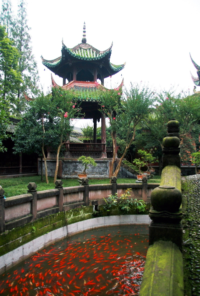 Yanhuachi, a Szechwanese classical garden near Chengdu